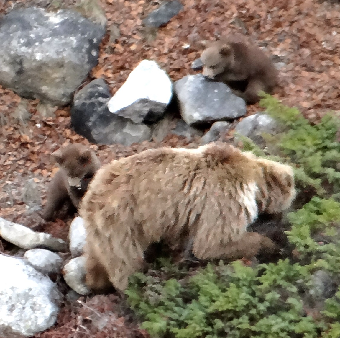 HImalayan Brown Bear With cubs on the trek from Gangotri to Gaumukh in Uttarakhand, India.